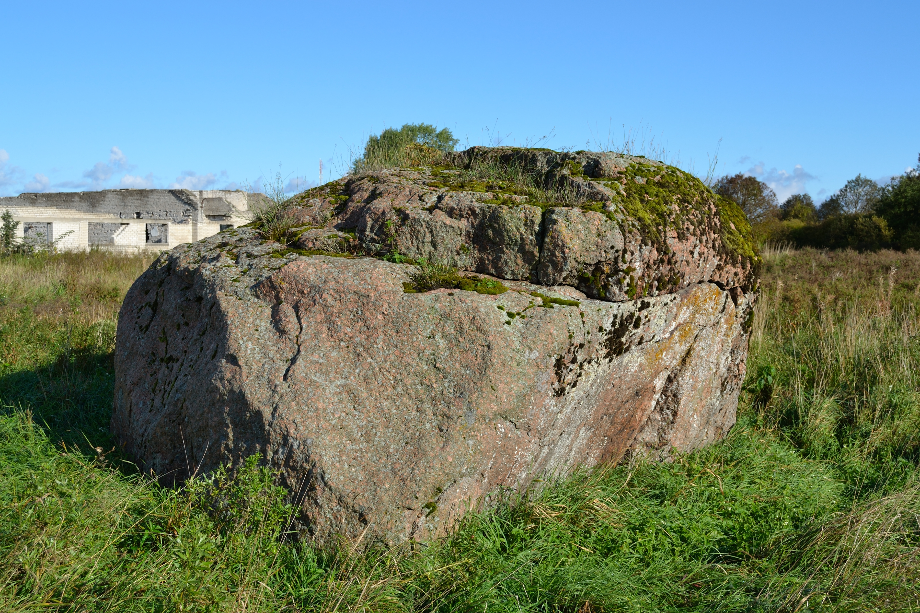 Offering stone, Saue Parish, Kiia village